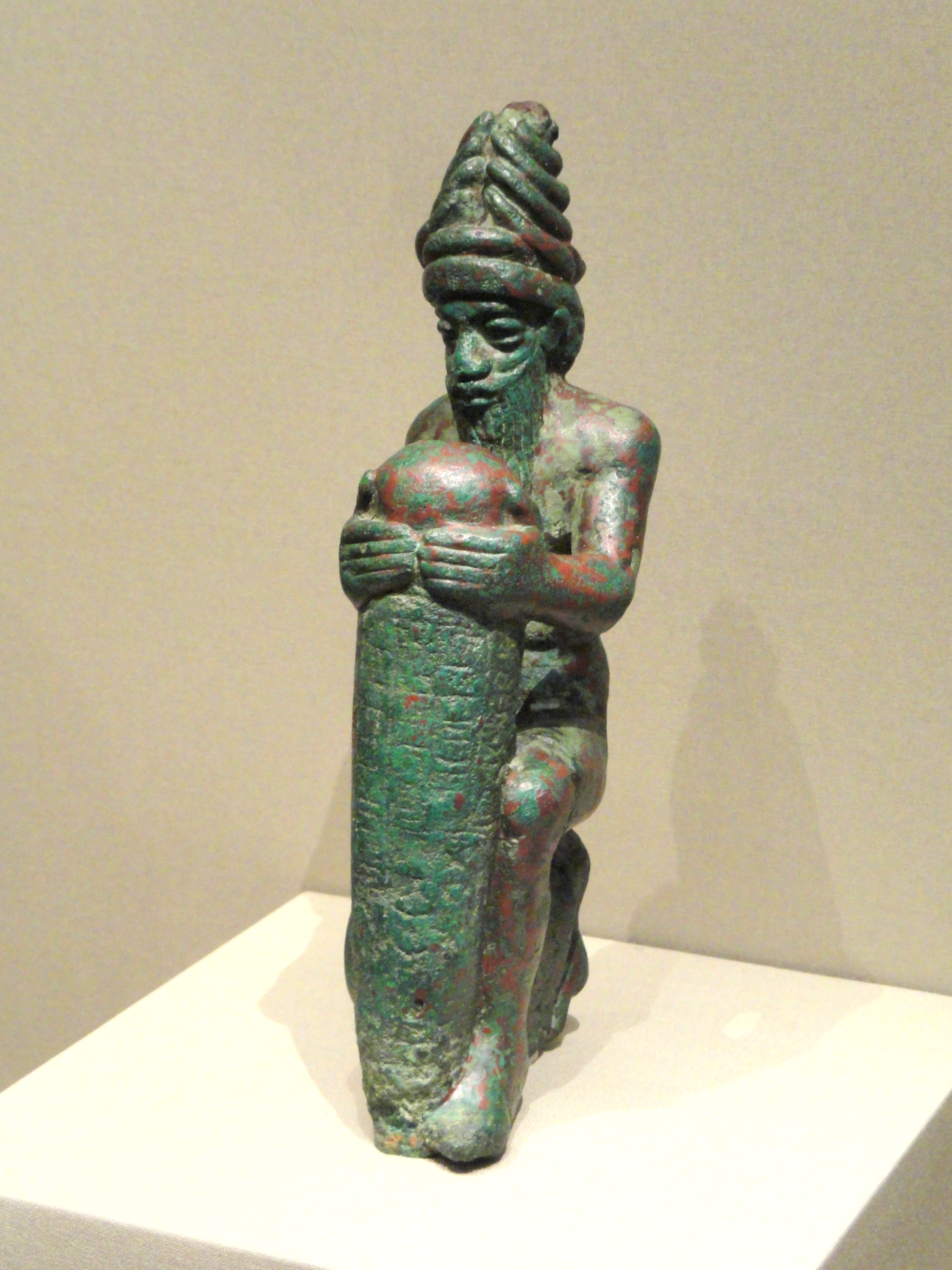 Exhibit in the Cleveland Museum of Art, Cleveland, Ohio, USA. This artwork is old enough so that it is in the public domain.